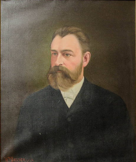 Frederick Augustus Tritle, Arizona Territorial Governor from March 8, 1882 to November 2, 1885.